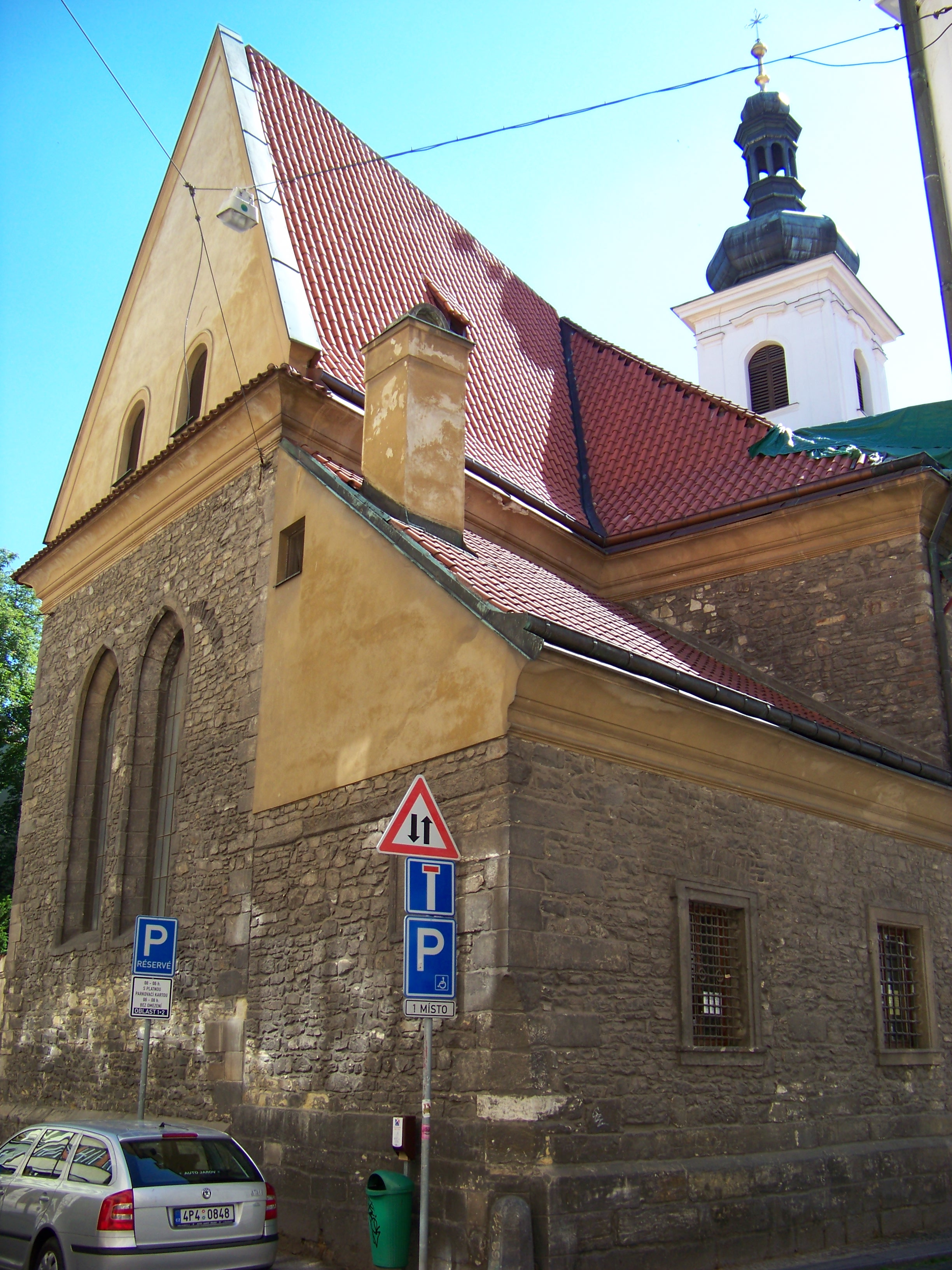 Prague-New Town, the Czech Republic. Opatovická and V jirchářích street, Saint Michael Church in Jircháře.